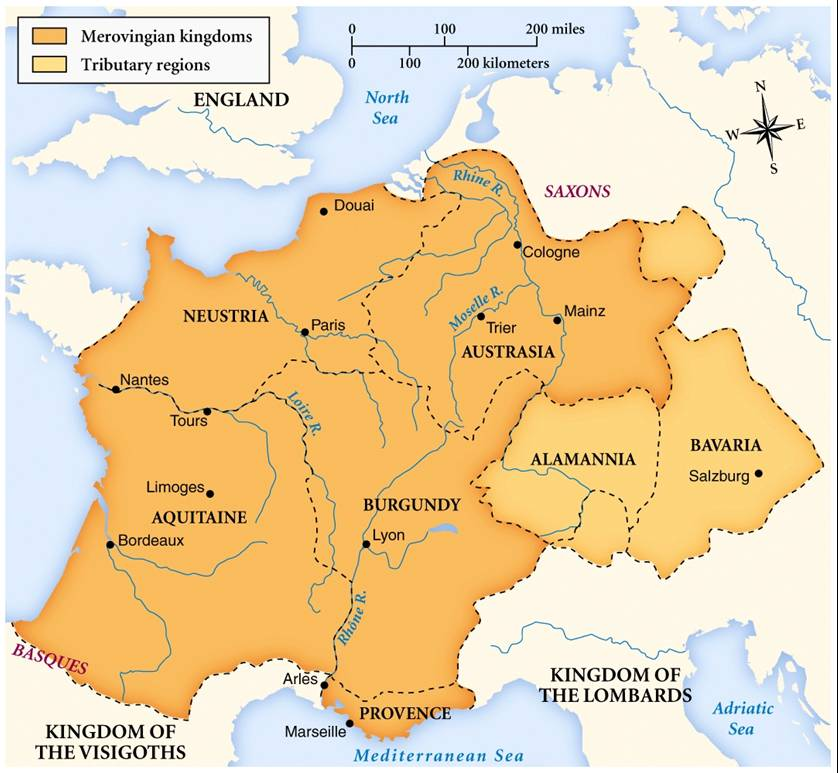 Map of the merovingian kingdoms